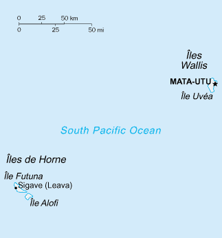 Map of Wallis and Futuna, showing islands and towns.